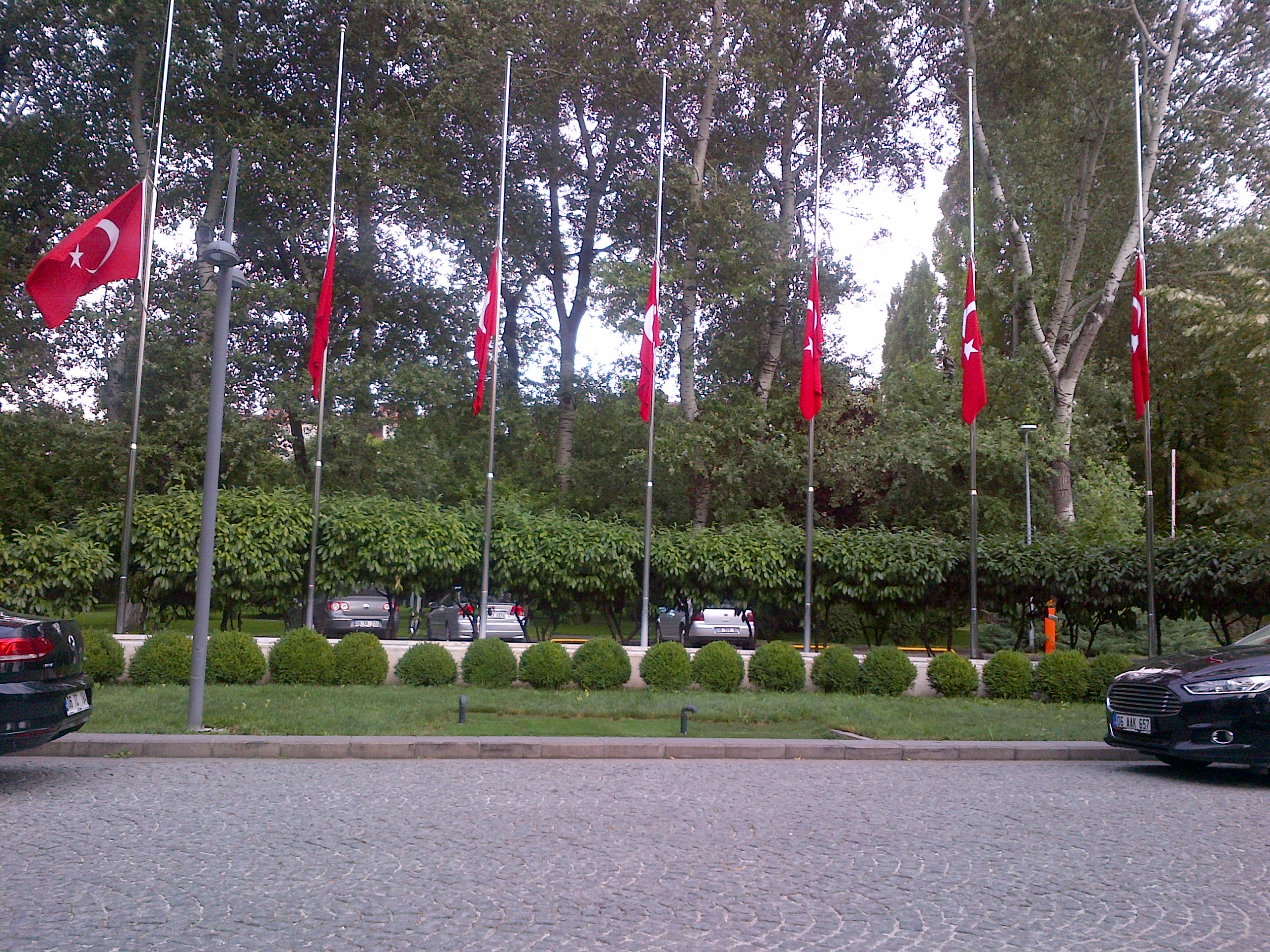 Turkish flags flying at half mast in Ankara, the capital of Turkey, on 29 June, during the official mourning declared after the terrorist attack at the Istanbul Atatürk Airport on 28 June 2016.